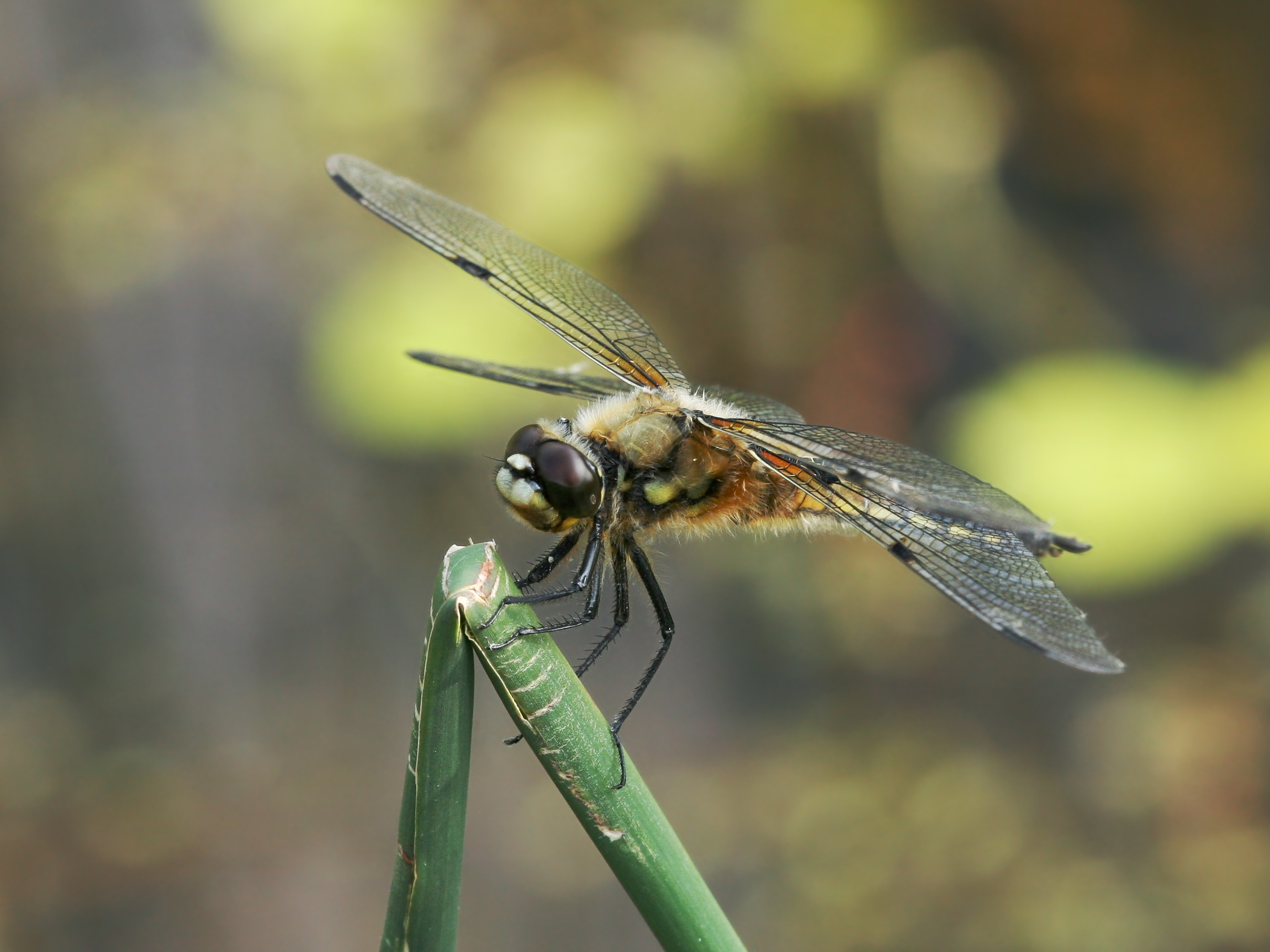 Four-spotted Chaser, Göttingen, Germany